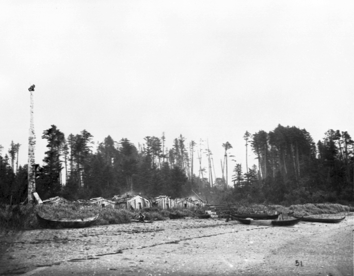 Dadans [Dadens] Indian village, North Island [Langara Island], 24 August 1878. Dadans had been important in the early fur trade but was now abandoned except, as in Dawson's photograph, when it was used seasonally as fishing camp